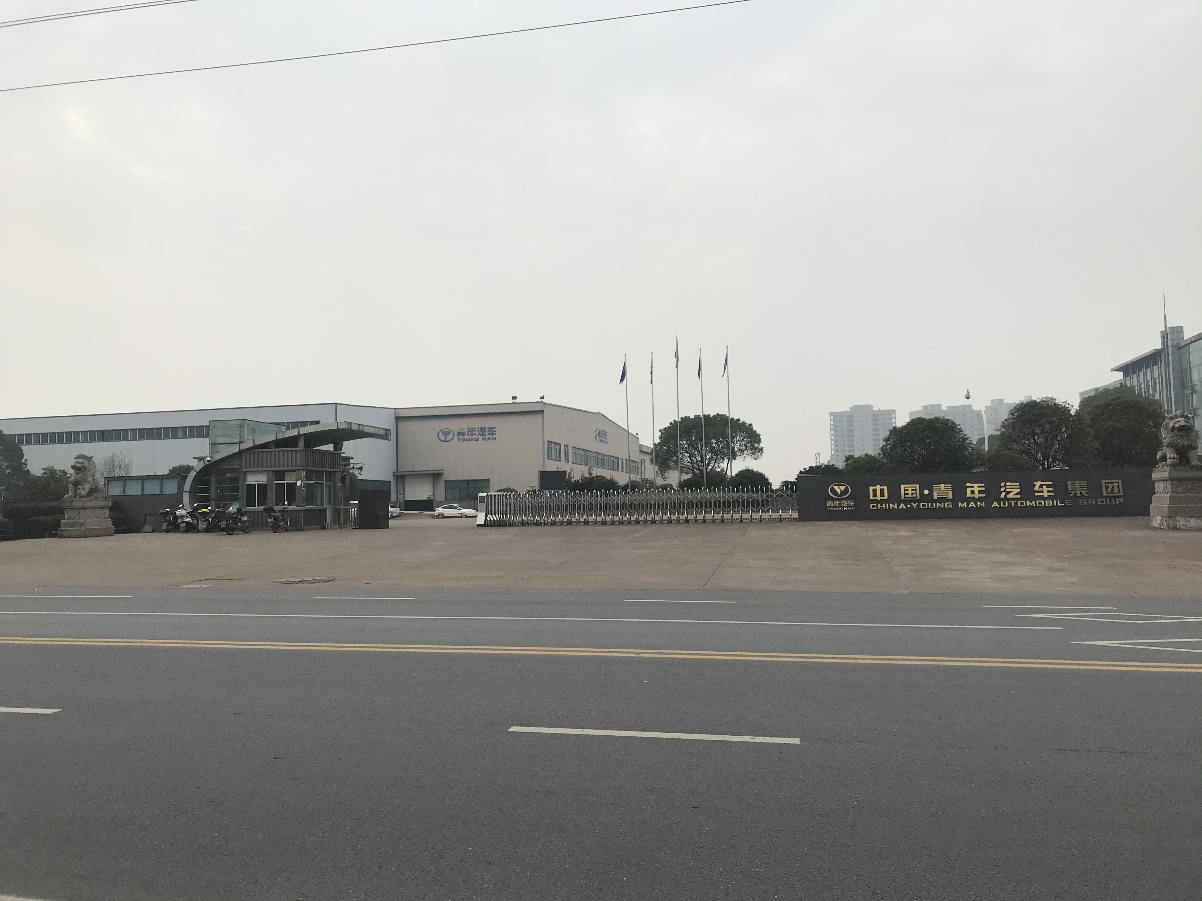 No indication of the termination of its operation and manufacturing...